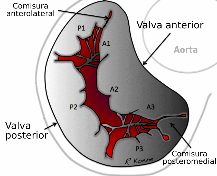 Mitral Valve